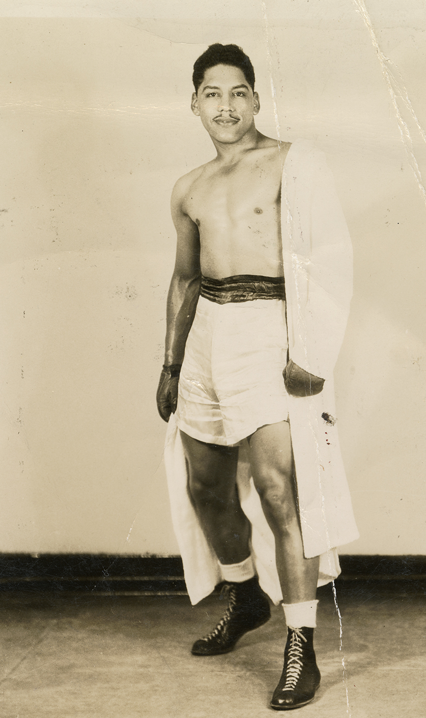 Early photo of F. Pancho Medrano in boxing attire.